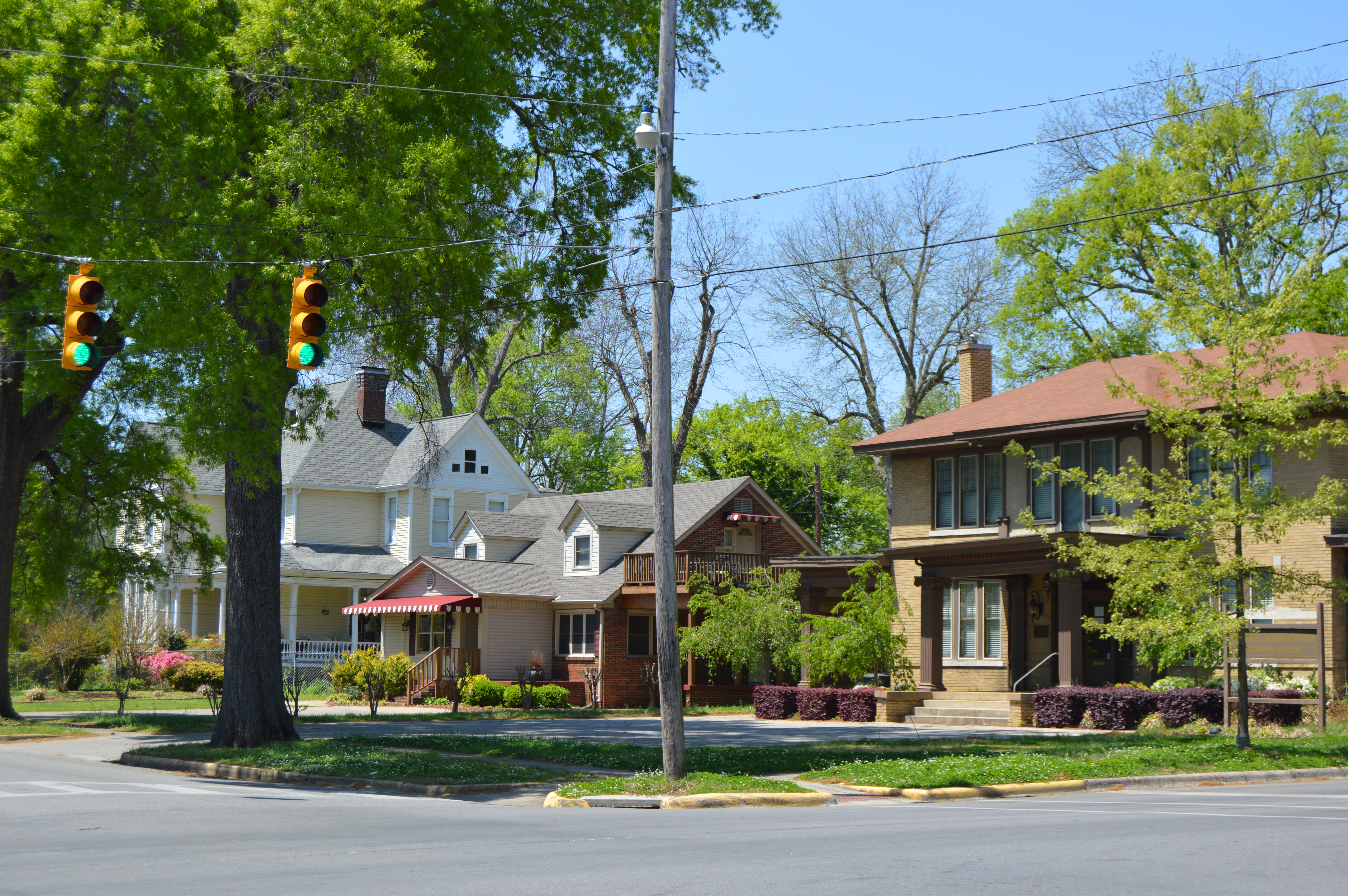 Houses on the northern side of Tuscaloosa Street, seen from the Pine Street intersection, in Florence, Alabama, United States. This block is part of the Locust Street Historic District, a historic district that is listed on the National Register of Historic Places.